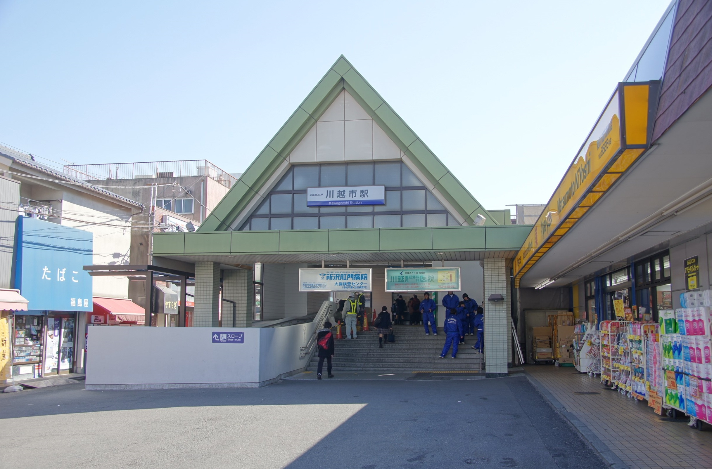 Entrance for Kawagoeshi Station on the Tobu Tojo Line